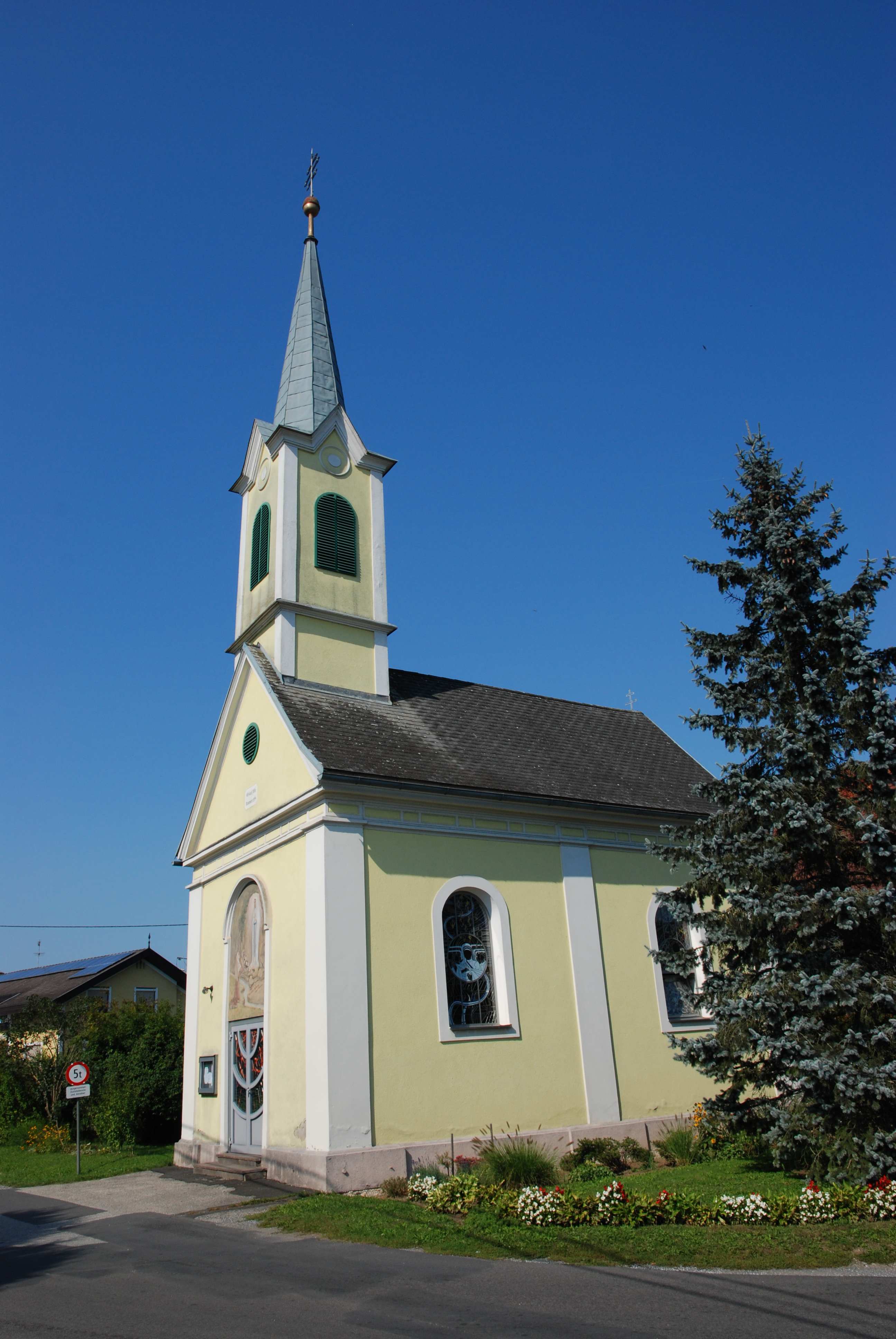 Kapelle Mitterlabill